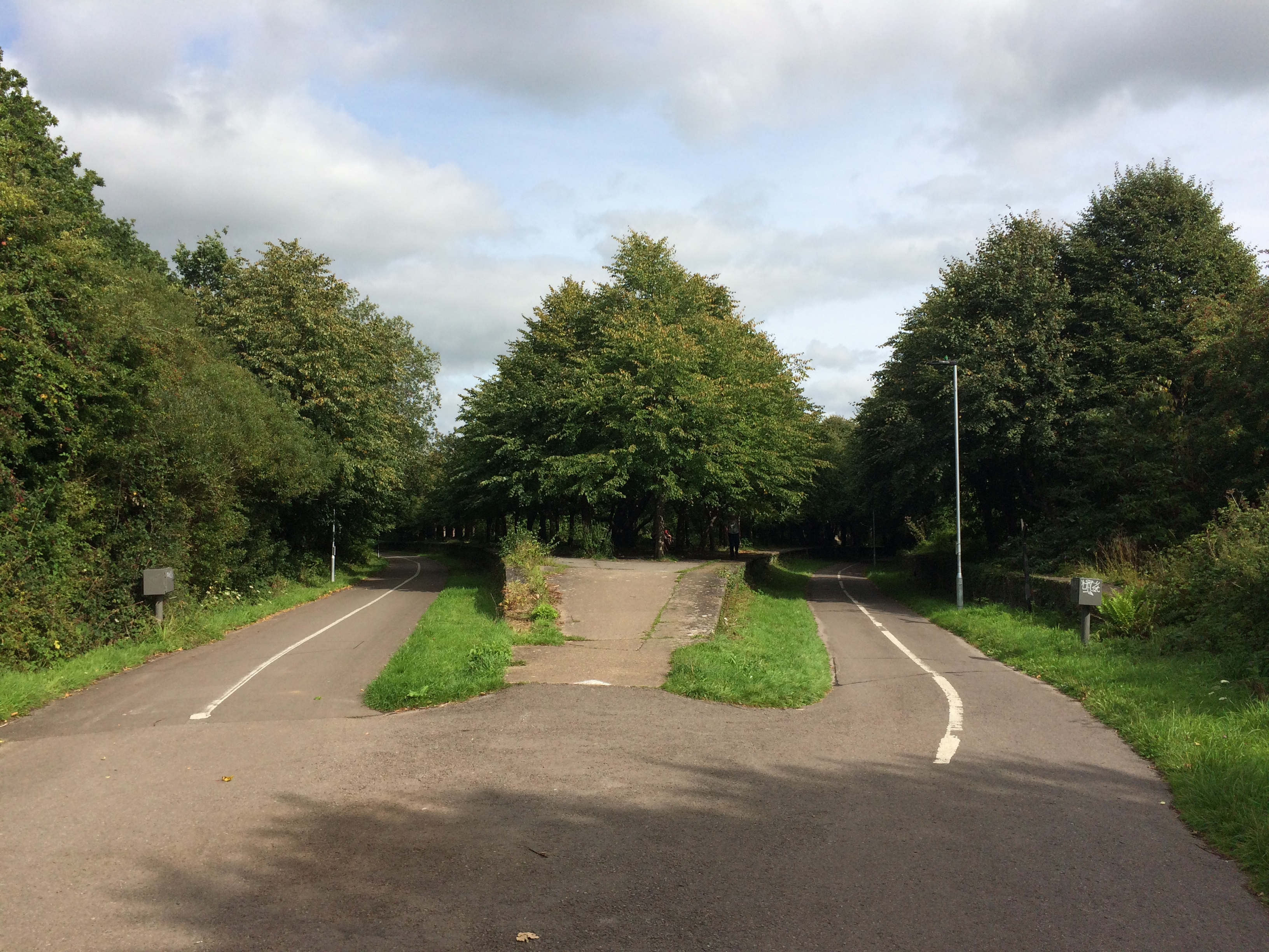 Platform at Mangotsfield Junction